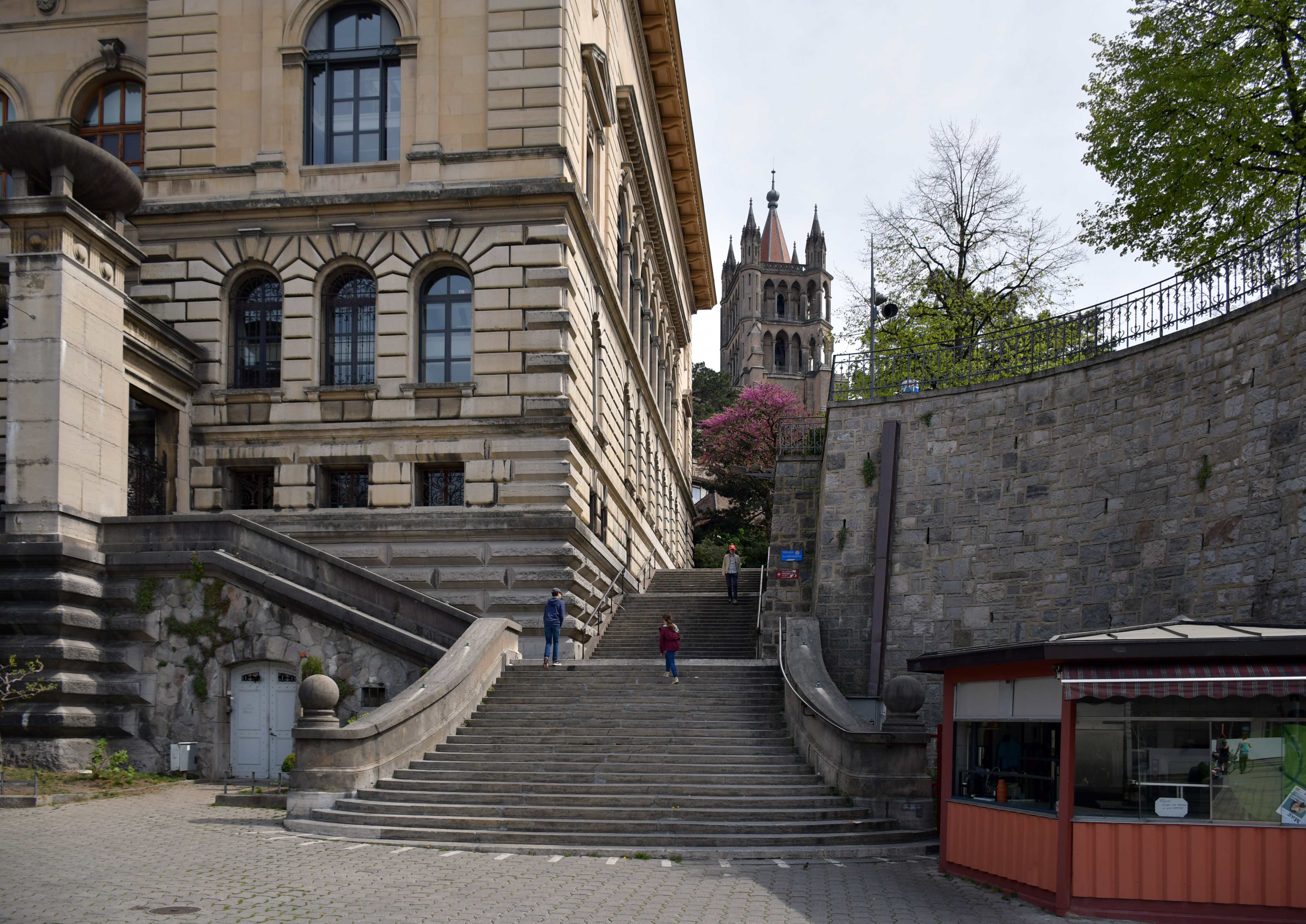 The Palais de Rumine (left), the Escaliers de l'Université (center), the retaining wall of the Place de la Madeleine (right) and, in the background, the cathedral of Lausanne (Switzerland), seen from Place de la Riponne.